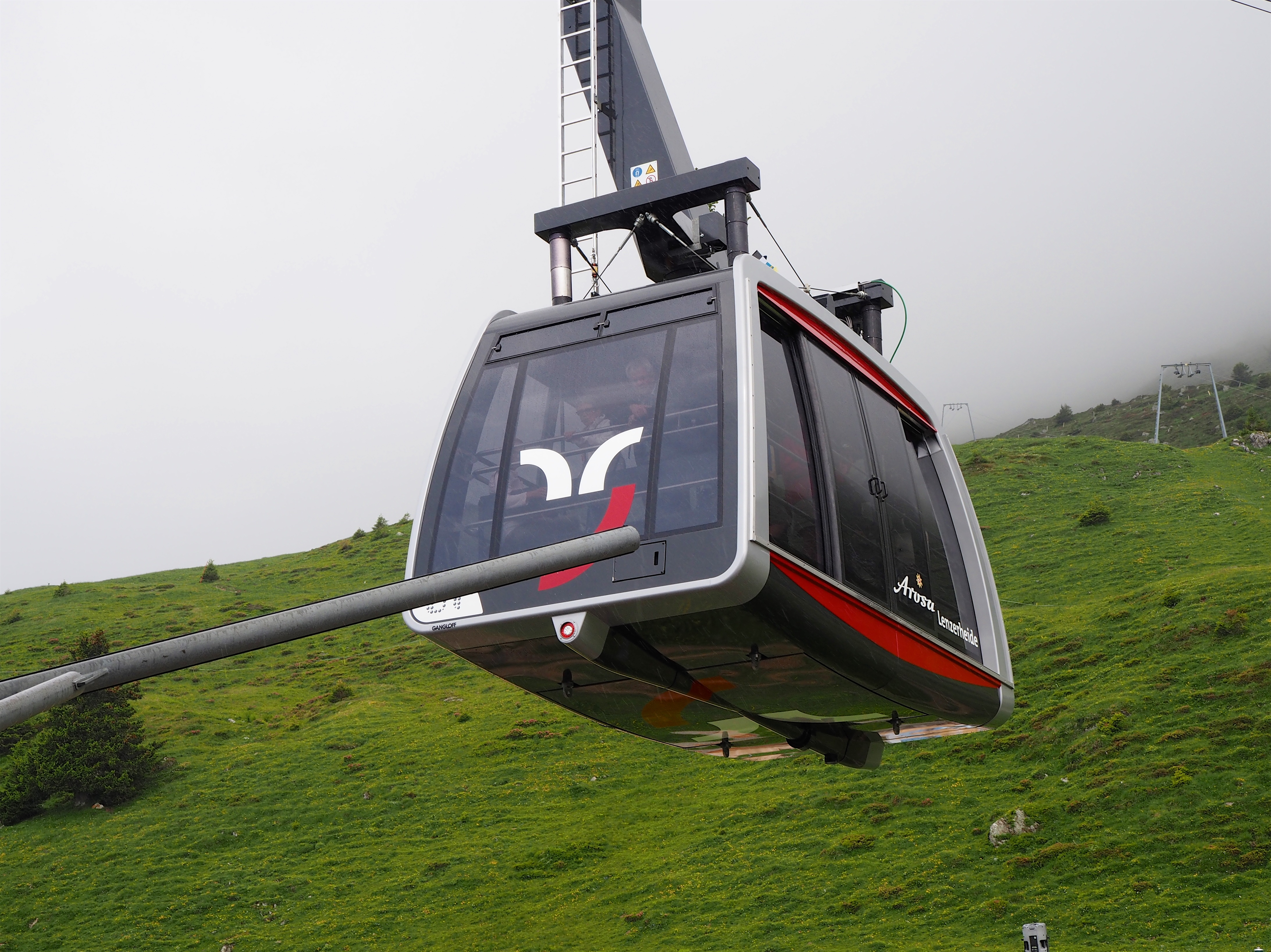 New gondola of cable car to Rothorn peak, Lenzerheide/Switzerland